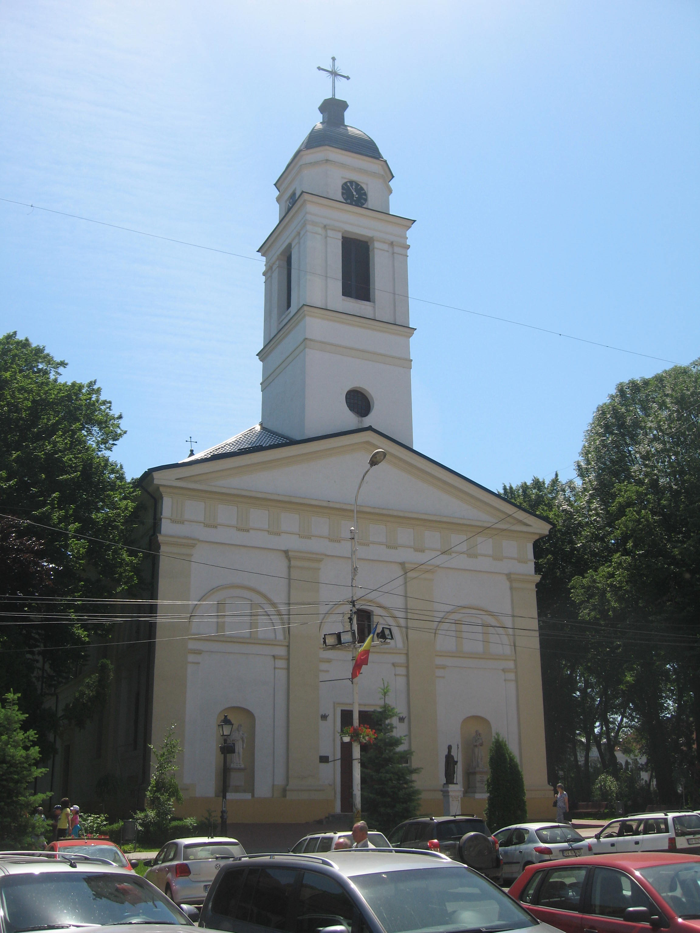 St. John of Nepomuk Roman Catholic Church in Suceava.